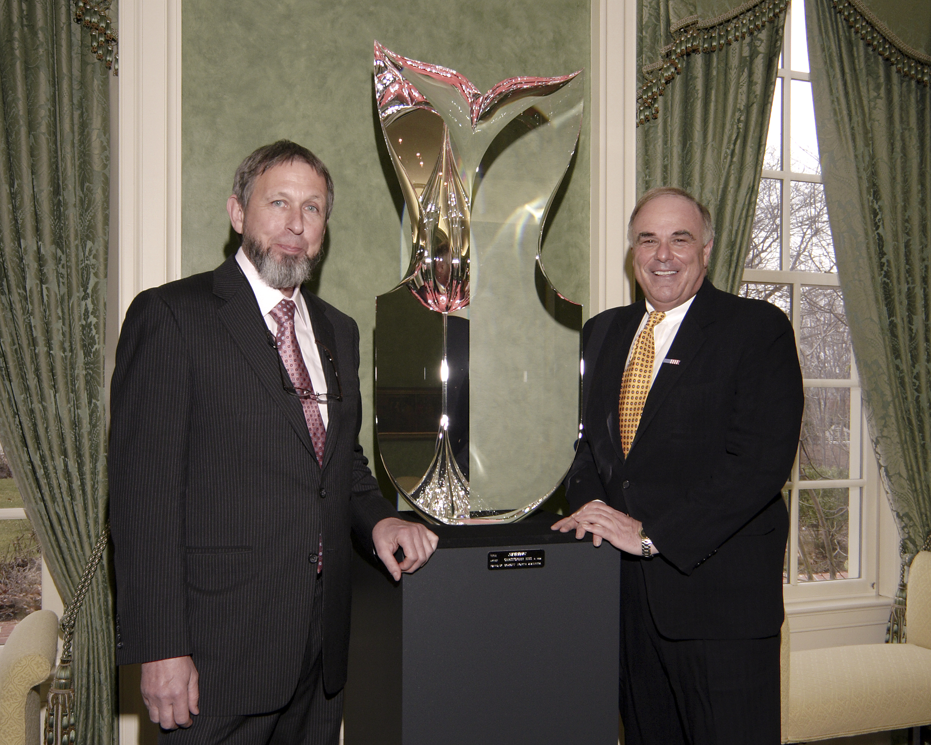 Christopher Ries with former Pennsylvania Ed Rendell. Photograph by James Kane.